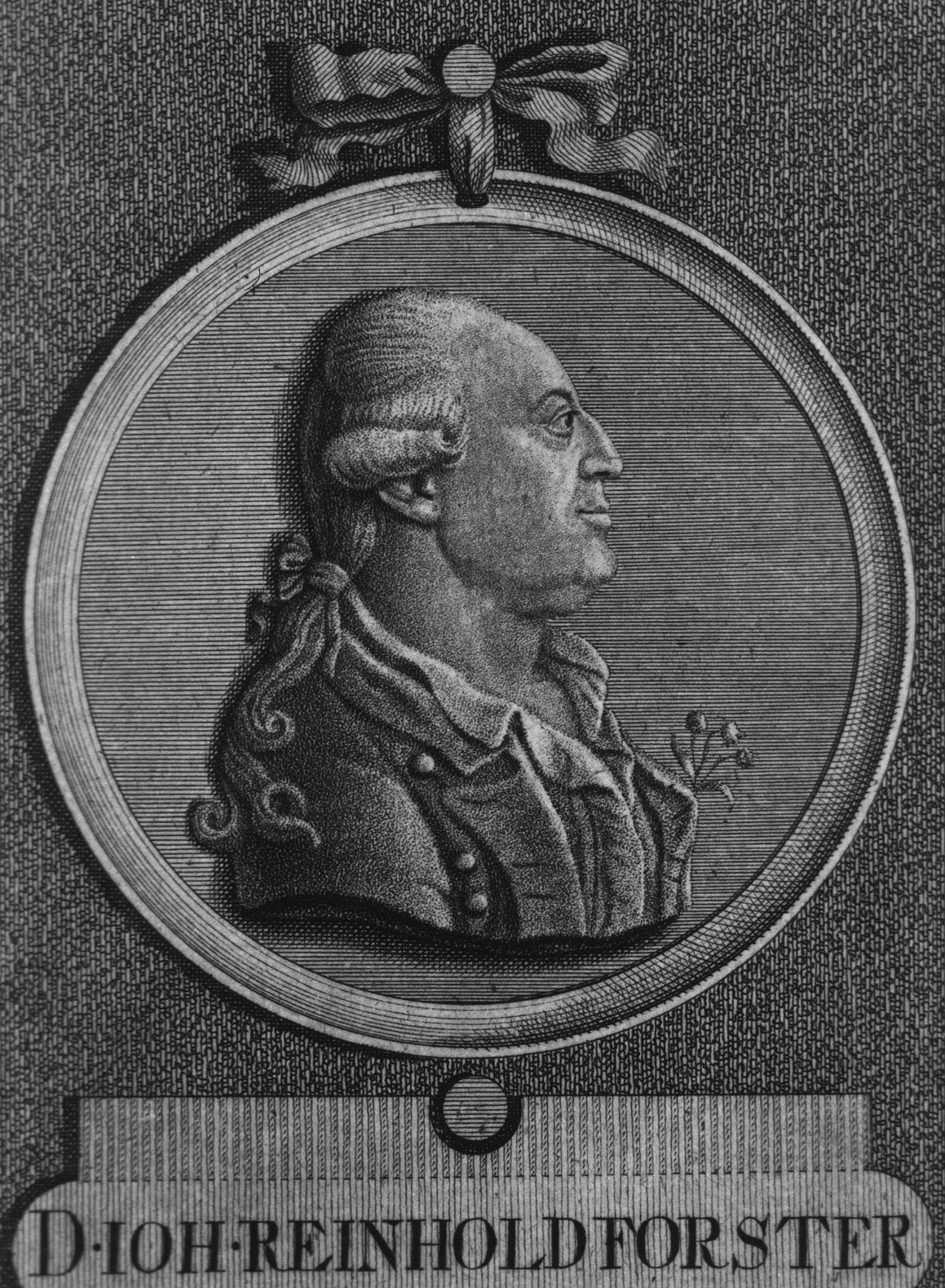 Johann Reinhold Forster (1729–1798), German Lutheran pastor and naturalist